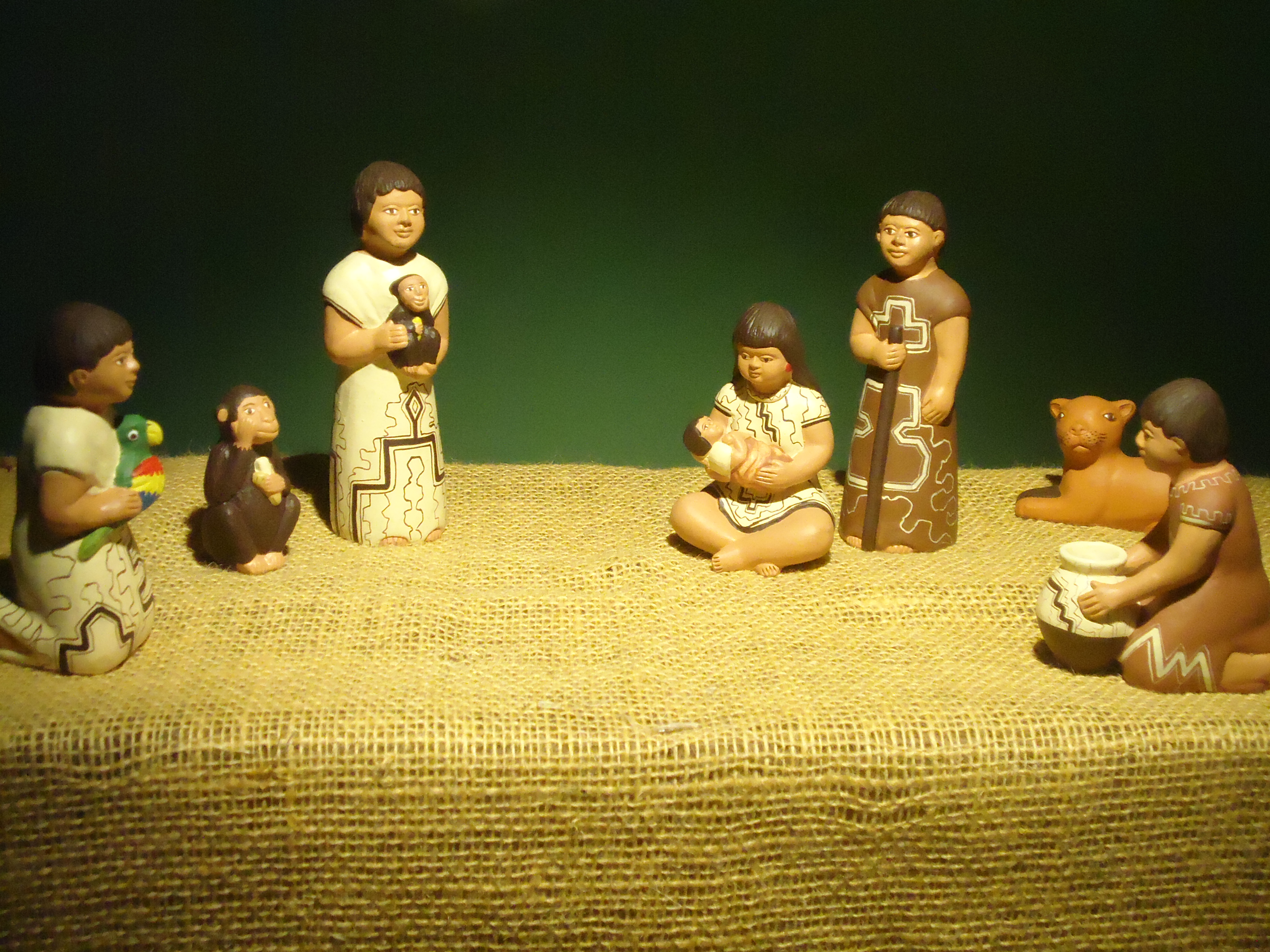 Nativity scenes